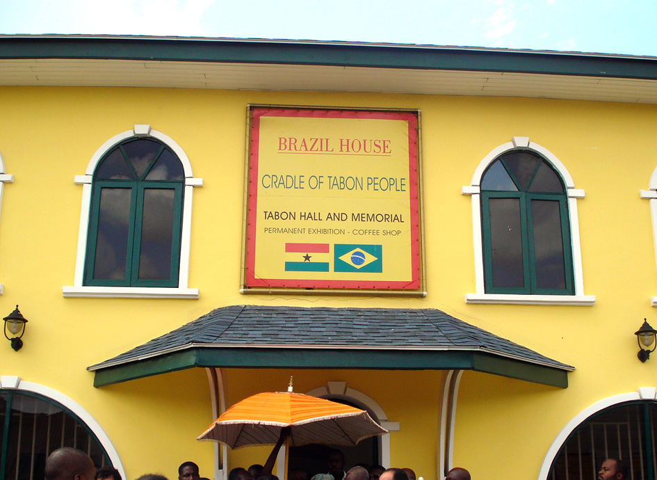 Home of the Tabom People, in Accra, Ghana, former slaves who returned to Africa after Brazil libertadosno. The House became a museum.